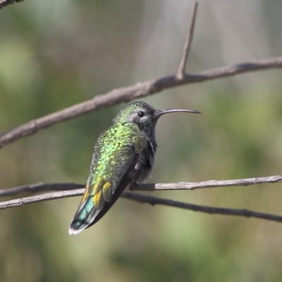 White-tailed Goldenthroat at Dourado - SP - Brazil